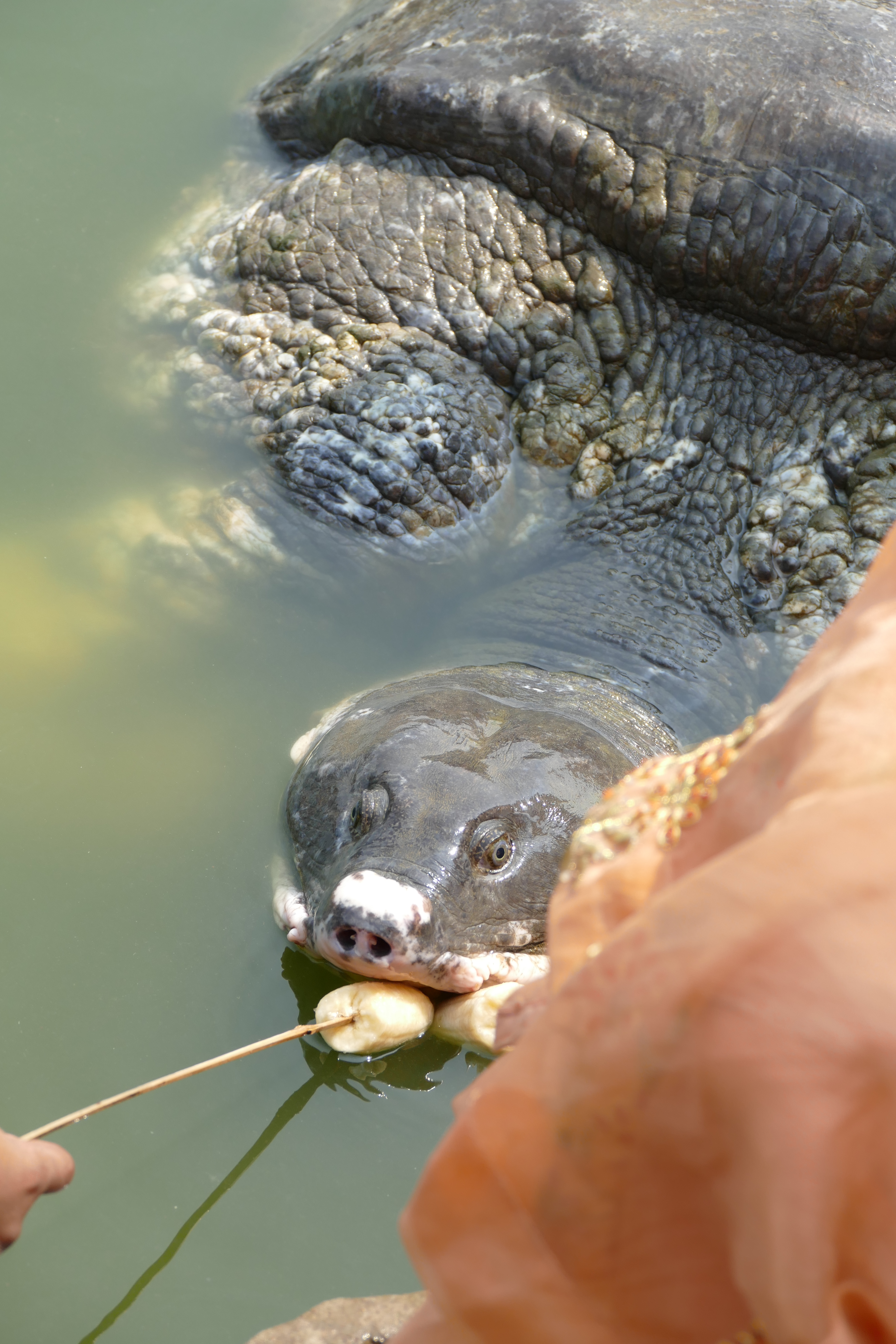 Feeding turtles in front of the shrine of Bayazid Bostami in Chittagong - a turtle accepting food is supposed to be a sign of good luck This photo has been taken in the country: Bangladesh